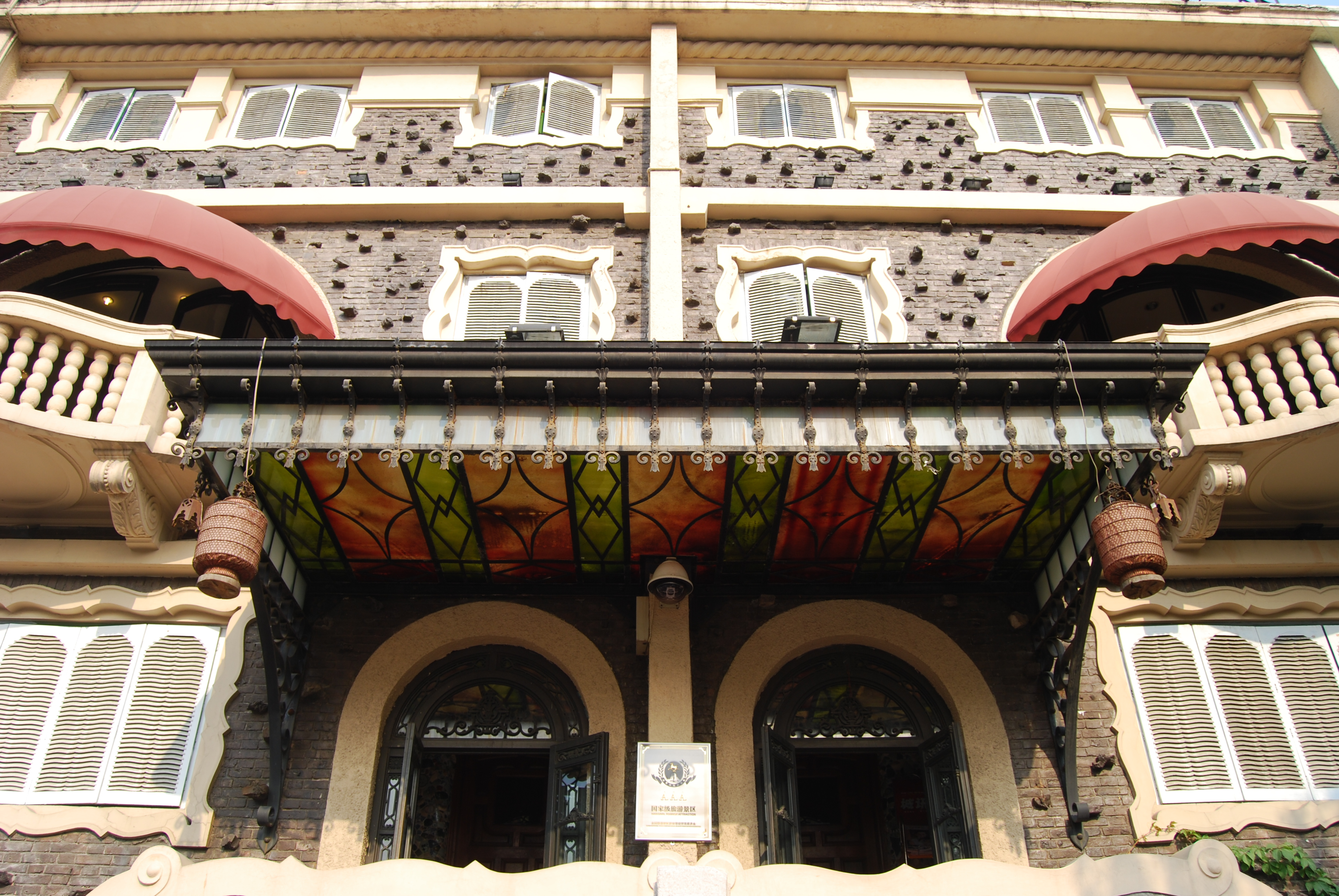 Gedalou (疙瘩楼) in Hebei Lu No. 285–293, Heping District, Tianjin